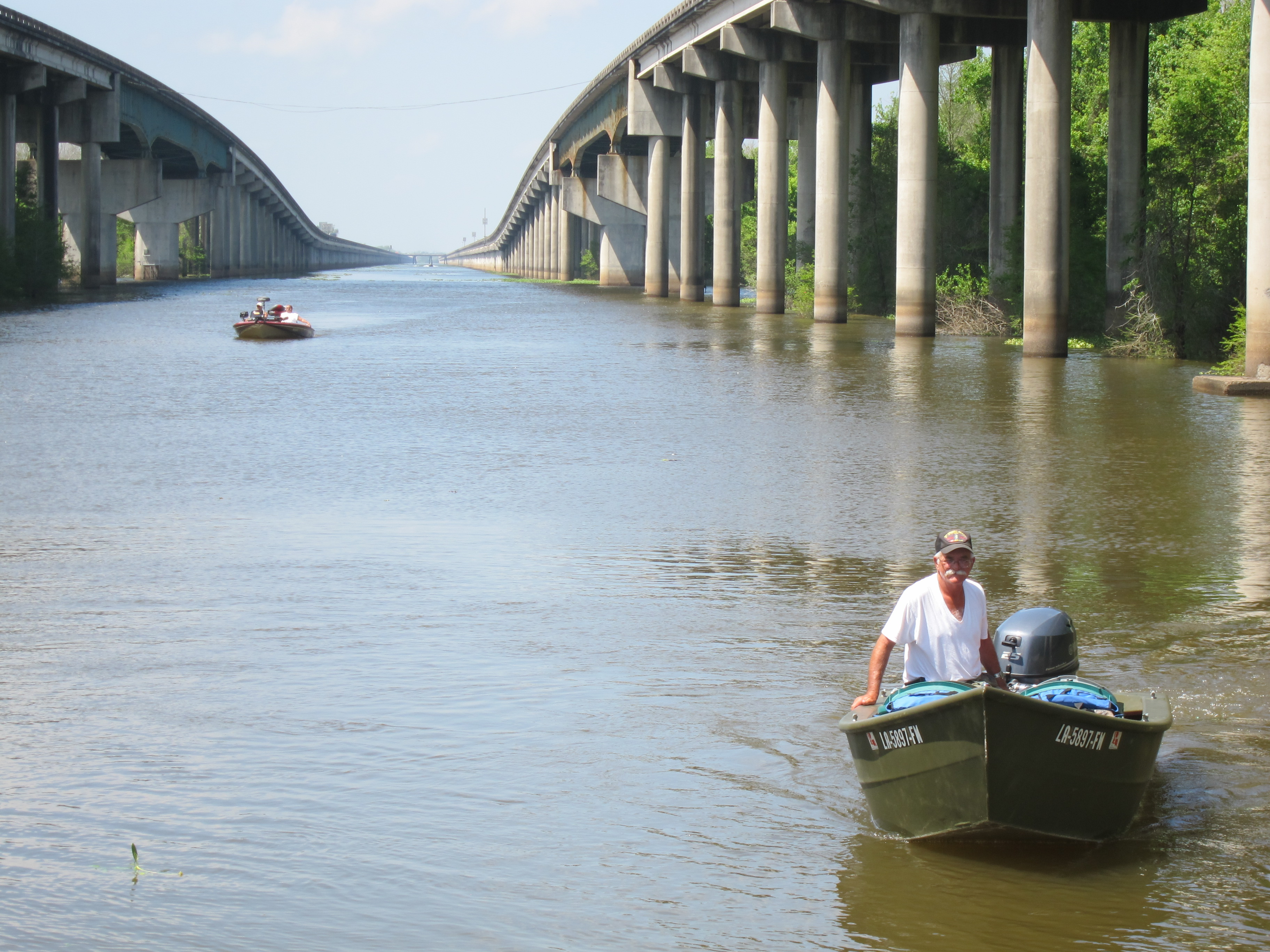 Ernest Couret has been giving tours of the Atchafalaya swamp for many years. Here he's picking us up from the boat ramp in the middle of interstate 10 as it crosses the swamp, near Butte la Rose.